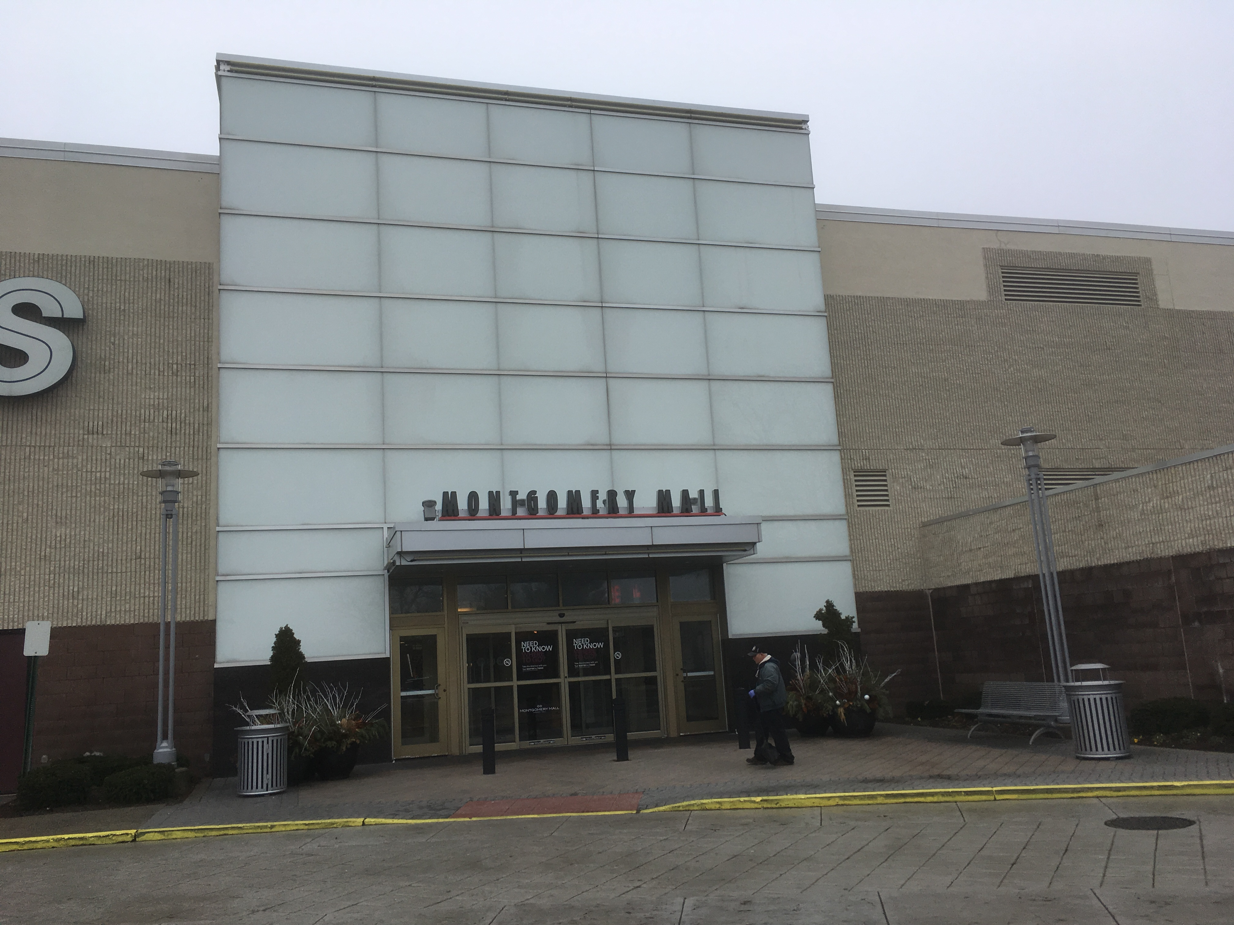 The first floor entrance of the Montgomery Mall in North Wales, Pennsylvania located near (now closed) Sears.